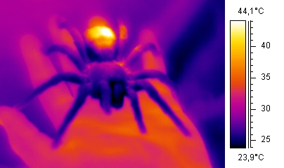 thermographic of a tarantula